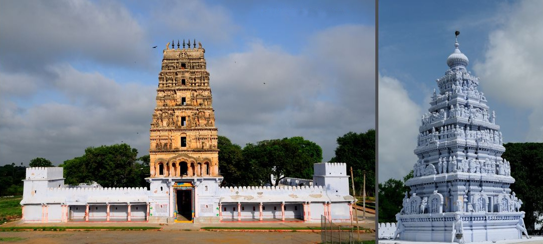 Temple was built by Vengi kings in 13th Century BC and one of the rarest Kodanda rama temple, where lord Ram is holding an arrow in his hand along with Sita and Laxmana in the Sanctum sanctorum. Lord Hanuman is placed at the Dhwaja stamba.